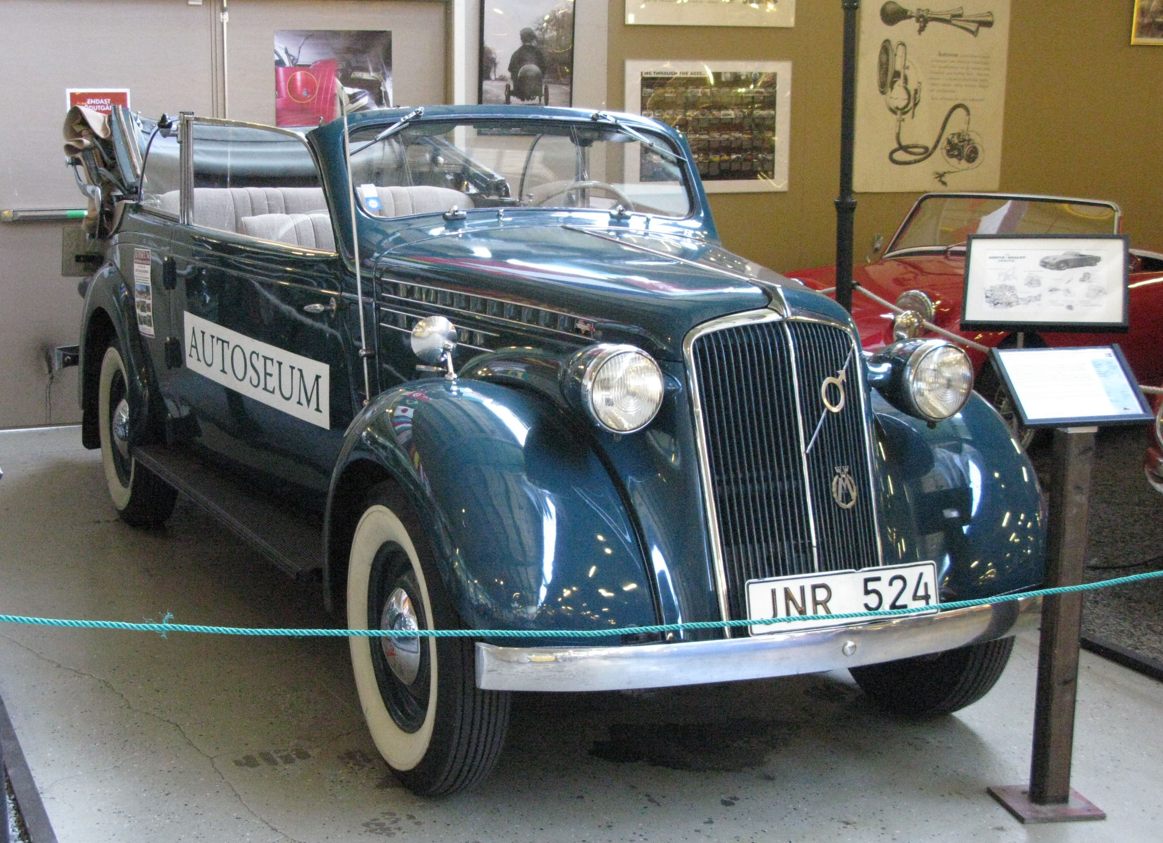 1937 Volvo PV51 with cabriolet body from Nordbergs Vagnfarik in Stockholm.